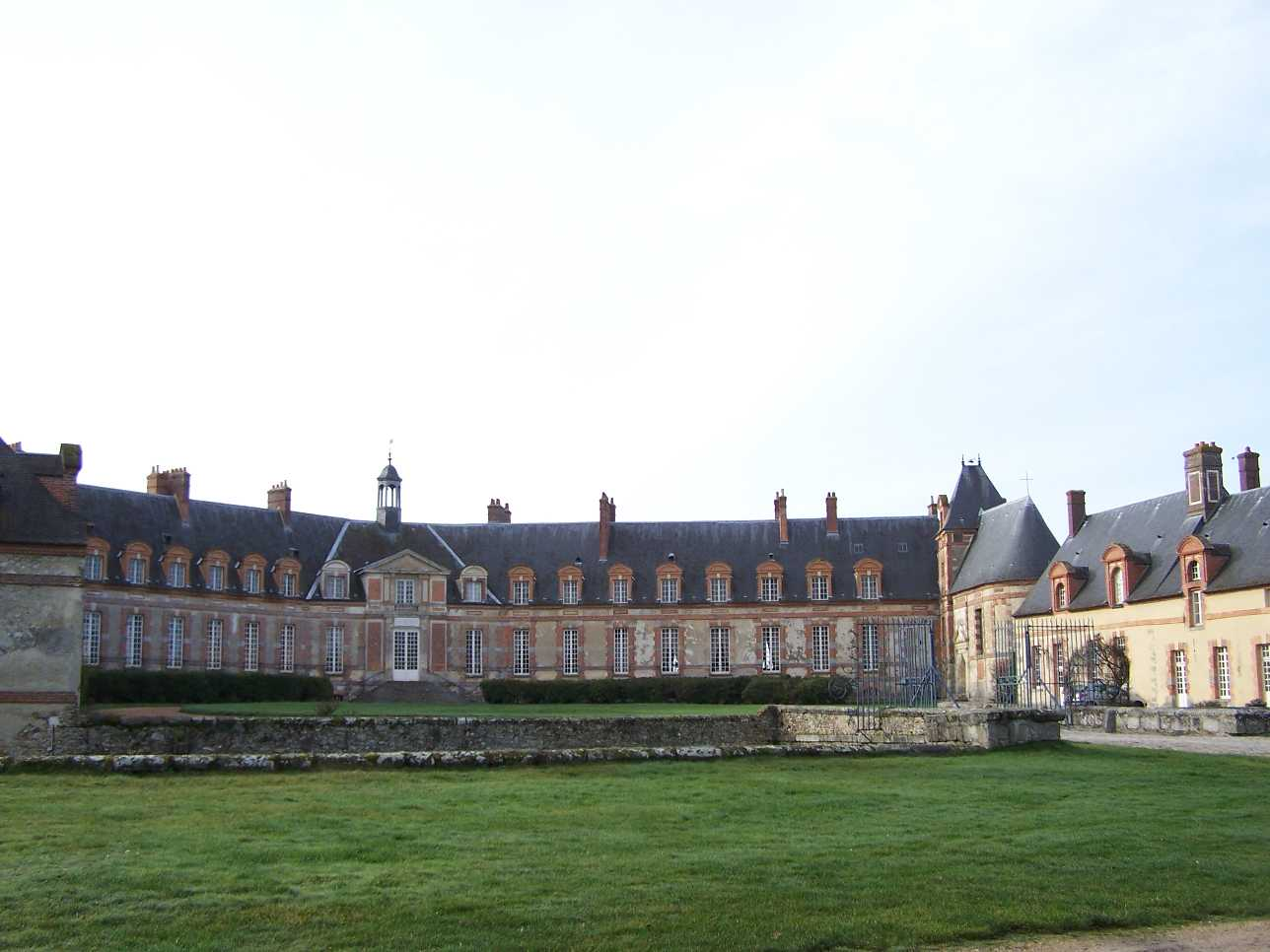 Castle of Gambais (Yvelines, France)